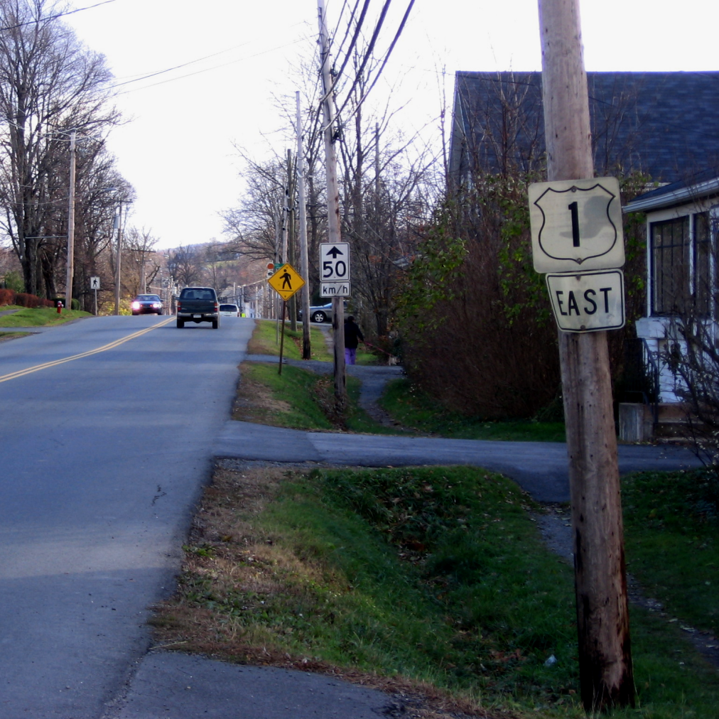 Photo of Trunk 1 in Windsor, NS. Own work.